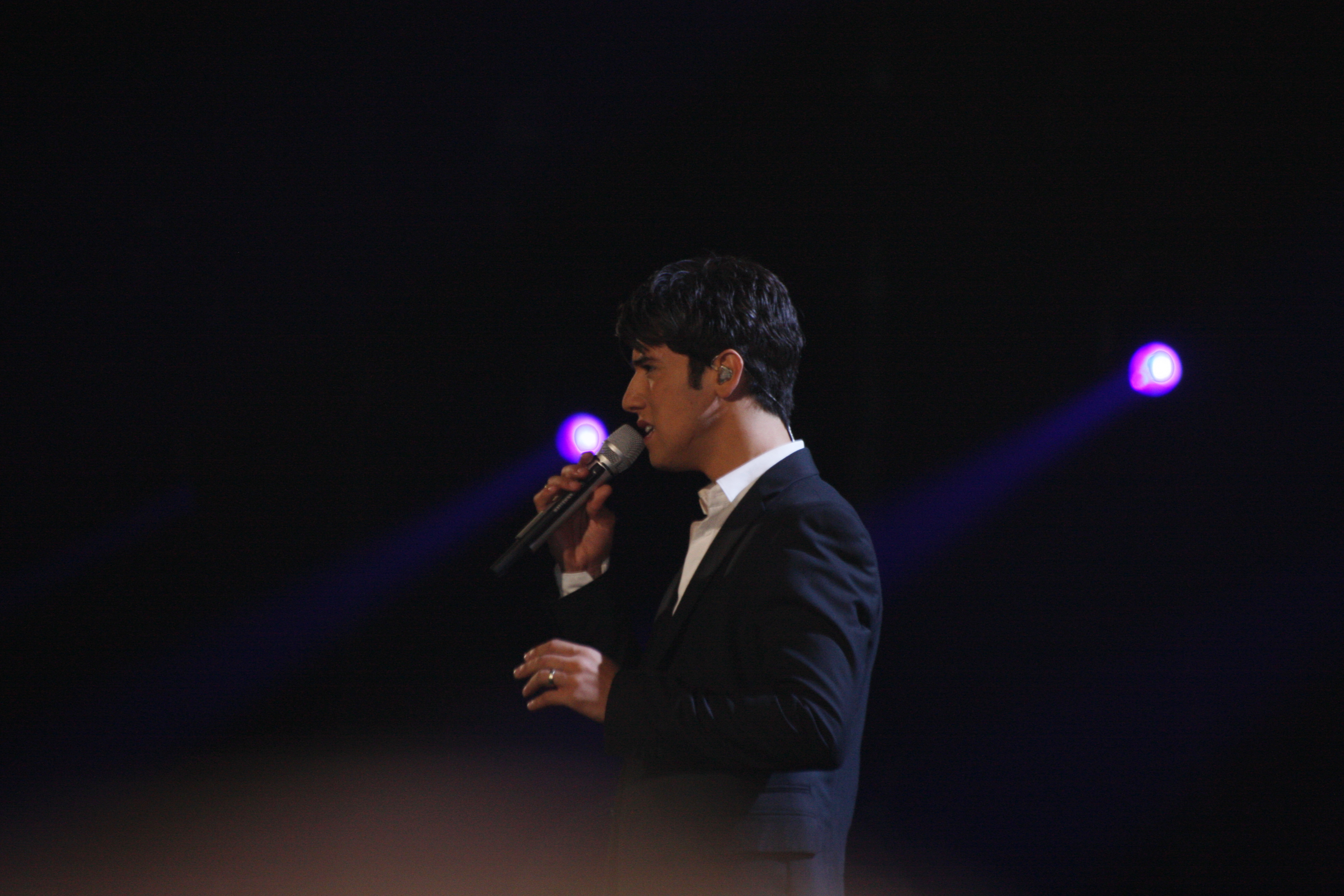 Harel Skaat, artist of Israel in Eurovision Song Contest 2010, rehearsal, Telenor Arena. Norway.